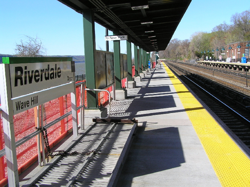 I took this photograph of the Metro North Riverdale train station.